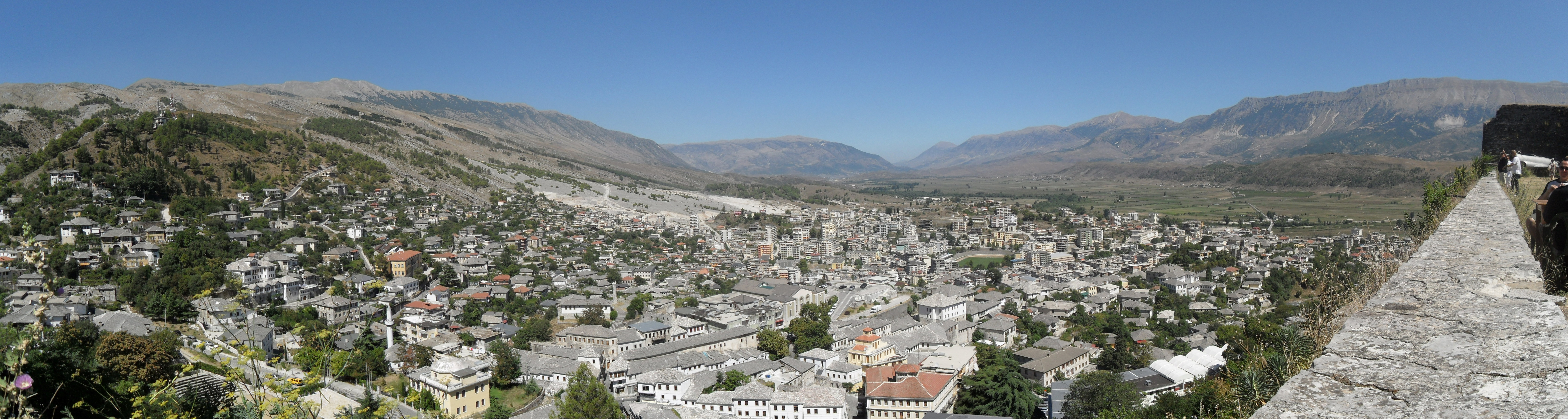 Panorama from Gjirokastër castle